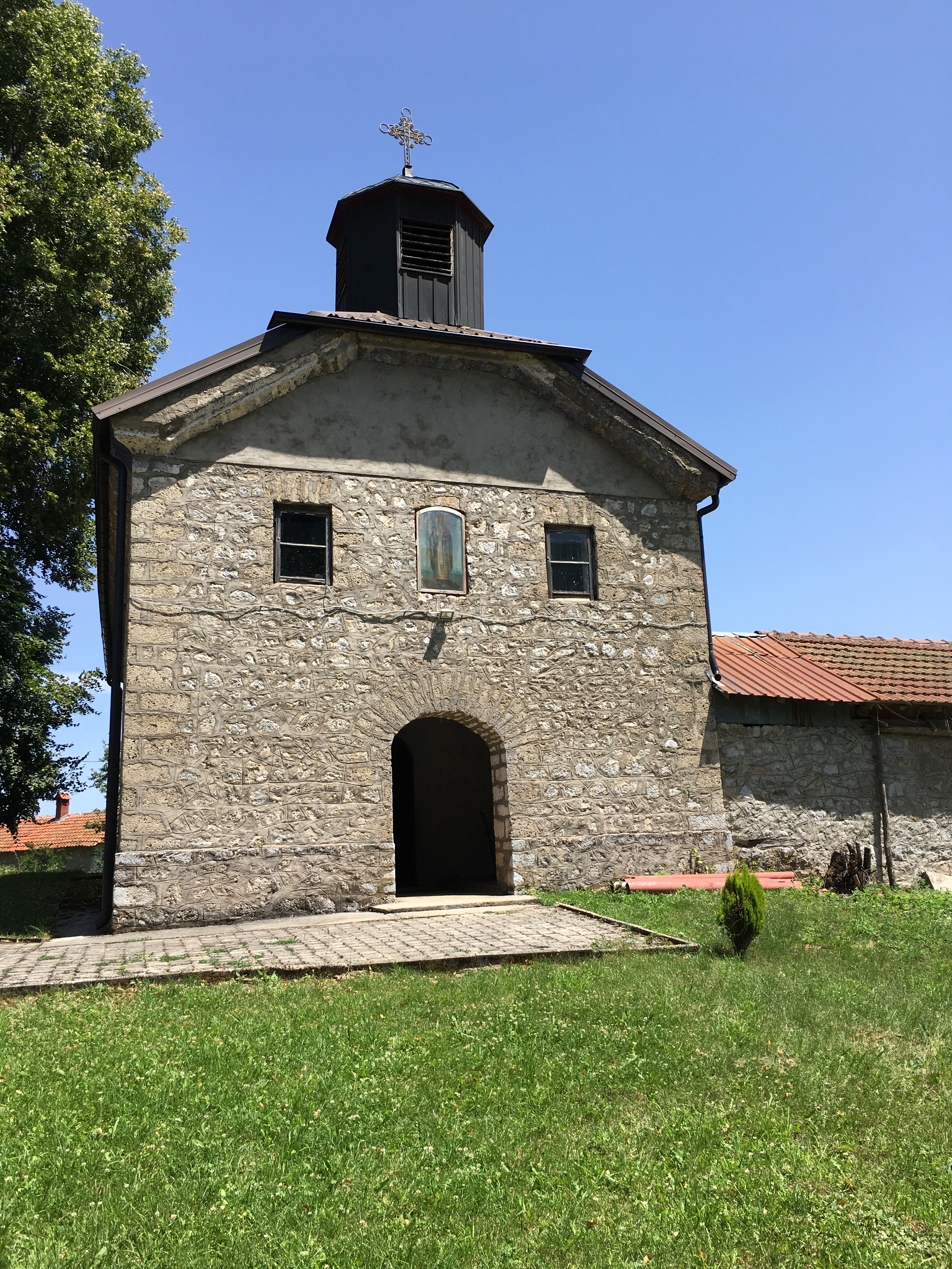 View of St. Athanasius Church in the village Višni